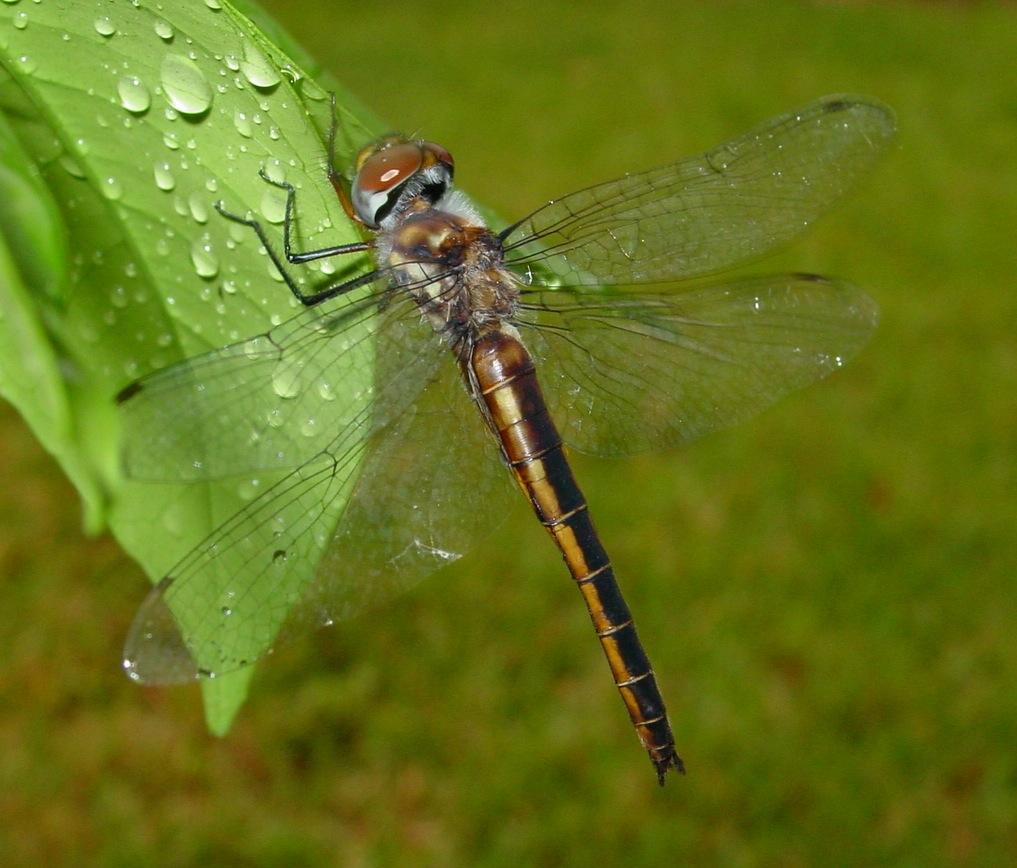 Epitheca sepia 2, Winter Park, 4-5-08